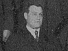 John Lindroth (1883–1960), a Finnish gymnast and sports shooter, who won bronze in gymnastics in the 1908 Olympics, in 5 December 1928